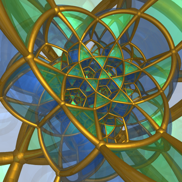 Central part of Schlegel diagram od cantellated 600-cell